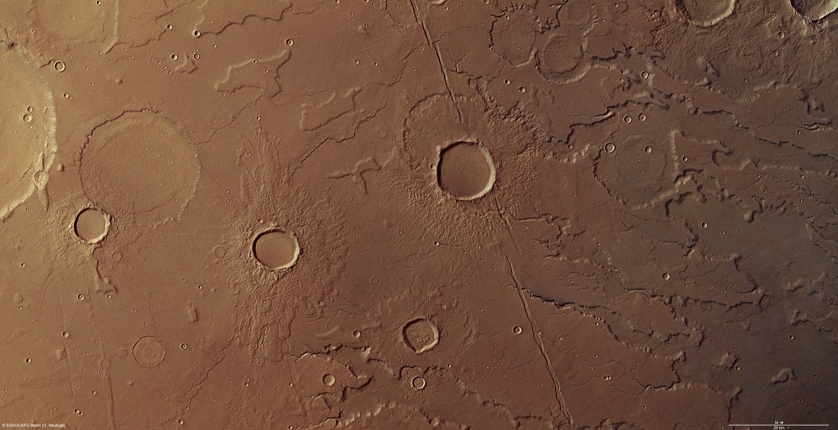 a rift on the planet mars in the tempe terra region can be seen stretching from top to bottum of the picture